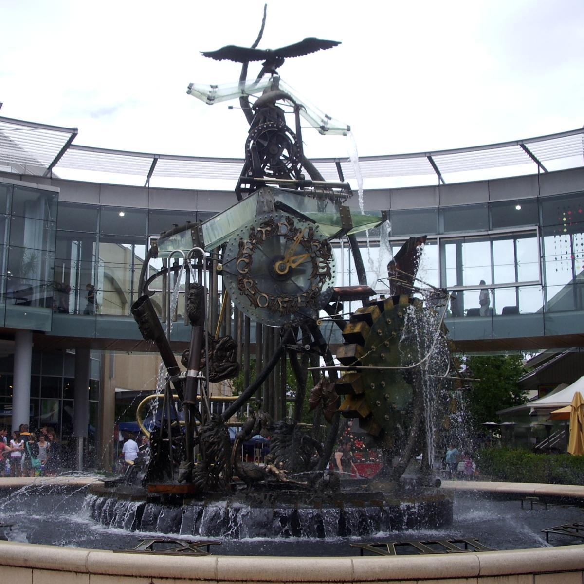 Hornsby Water Clock: general overview photo